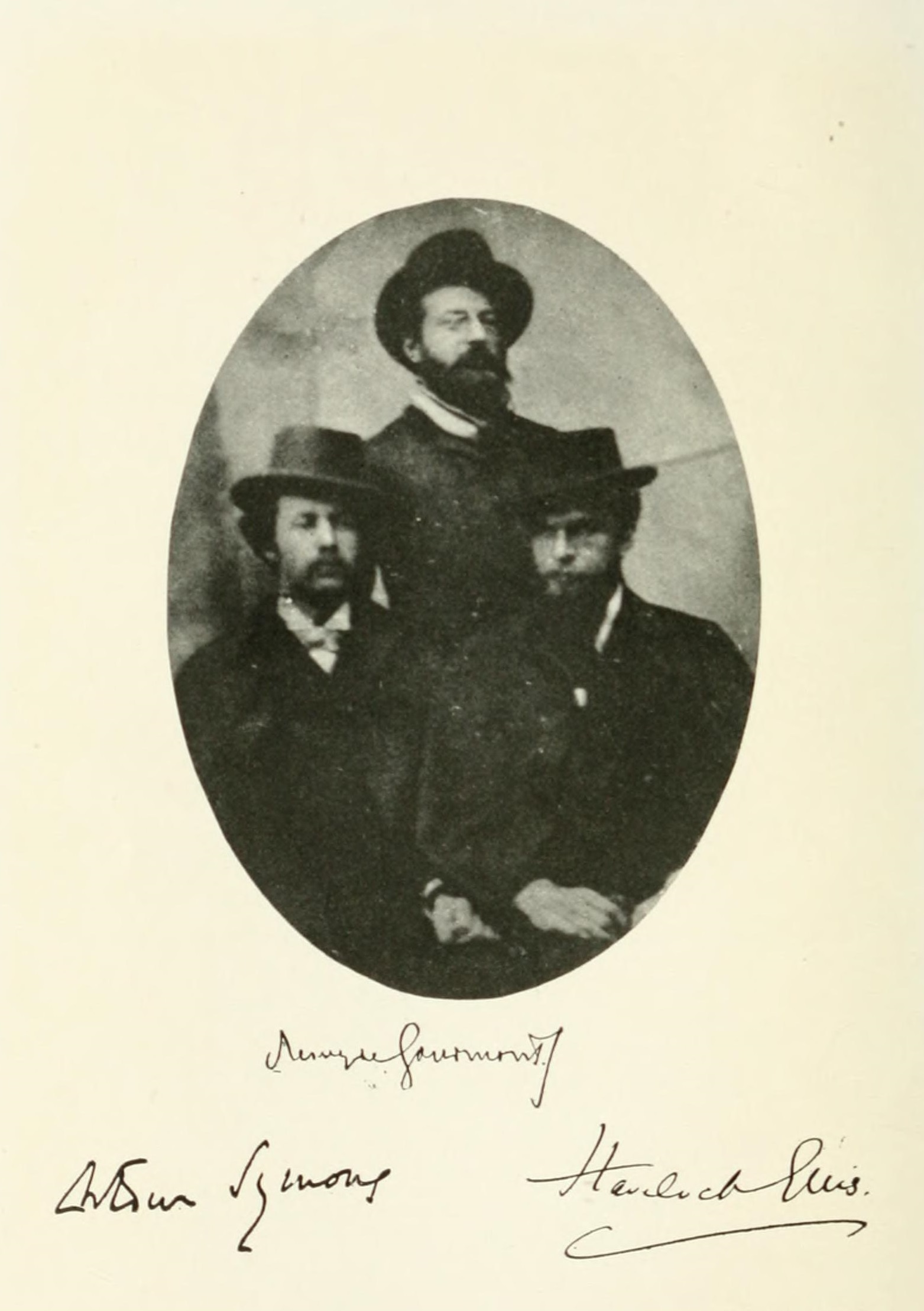 Picture of Gourmont, Symons and Ellis